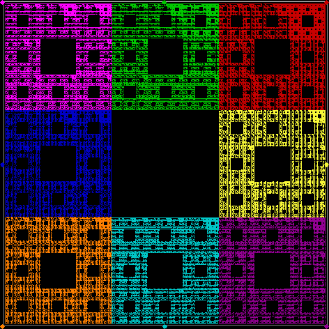 The Sierpinski carpet fractal, as created by a point jumping at random 2/3 of the way towards four vertices of a square or the four midpoints between the vertices.